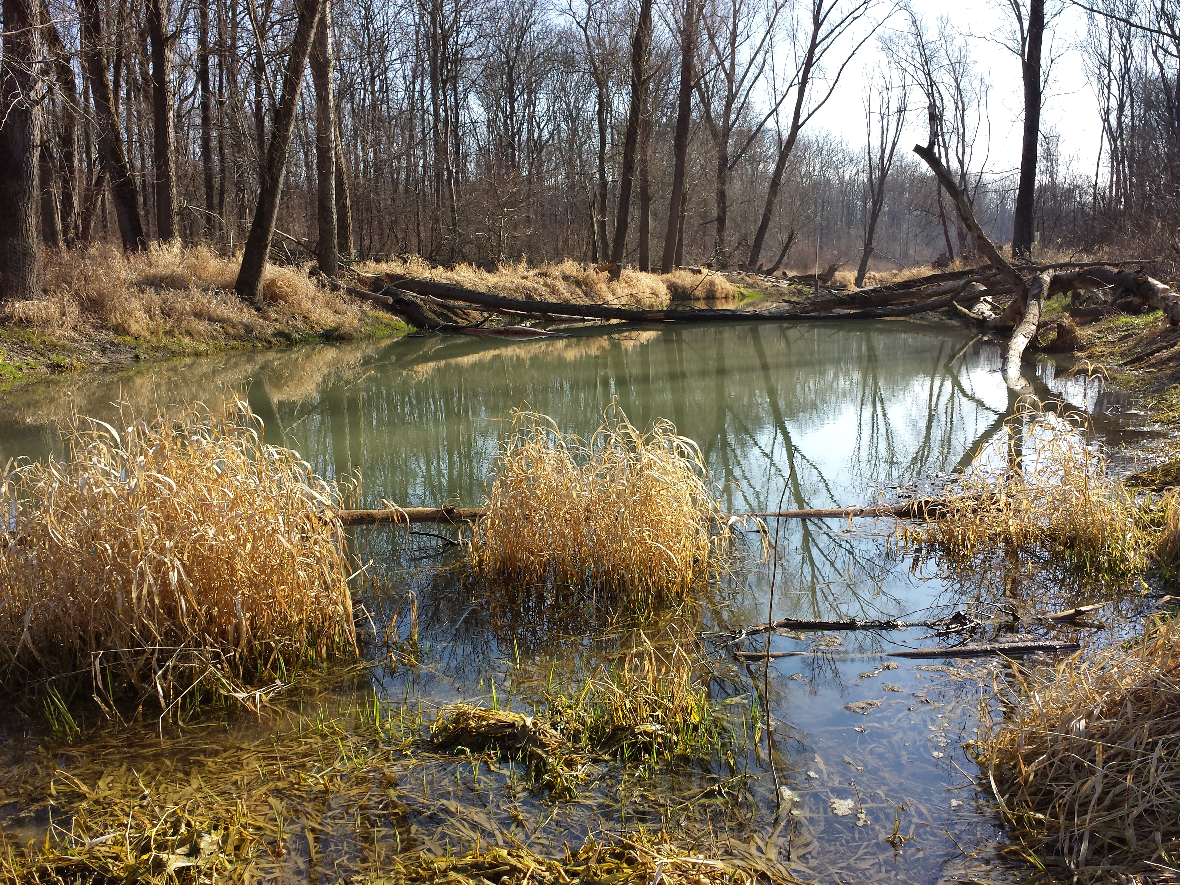 Naturschutzgebiet Stockerauer Au, Bezirk Korneuburg, Niederösterreich - ca. 170 msm Stockerau arm This media shows the nature reserve in Lower Austria with the ID 45.